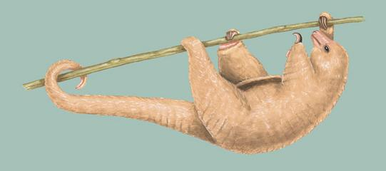 An illustration of a silky anteater. Obtained from [1]. Permission obtained from copyright holder.